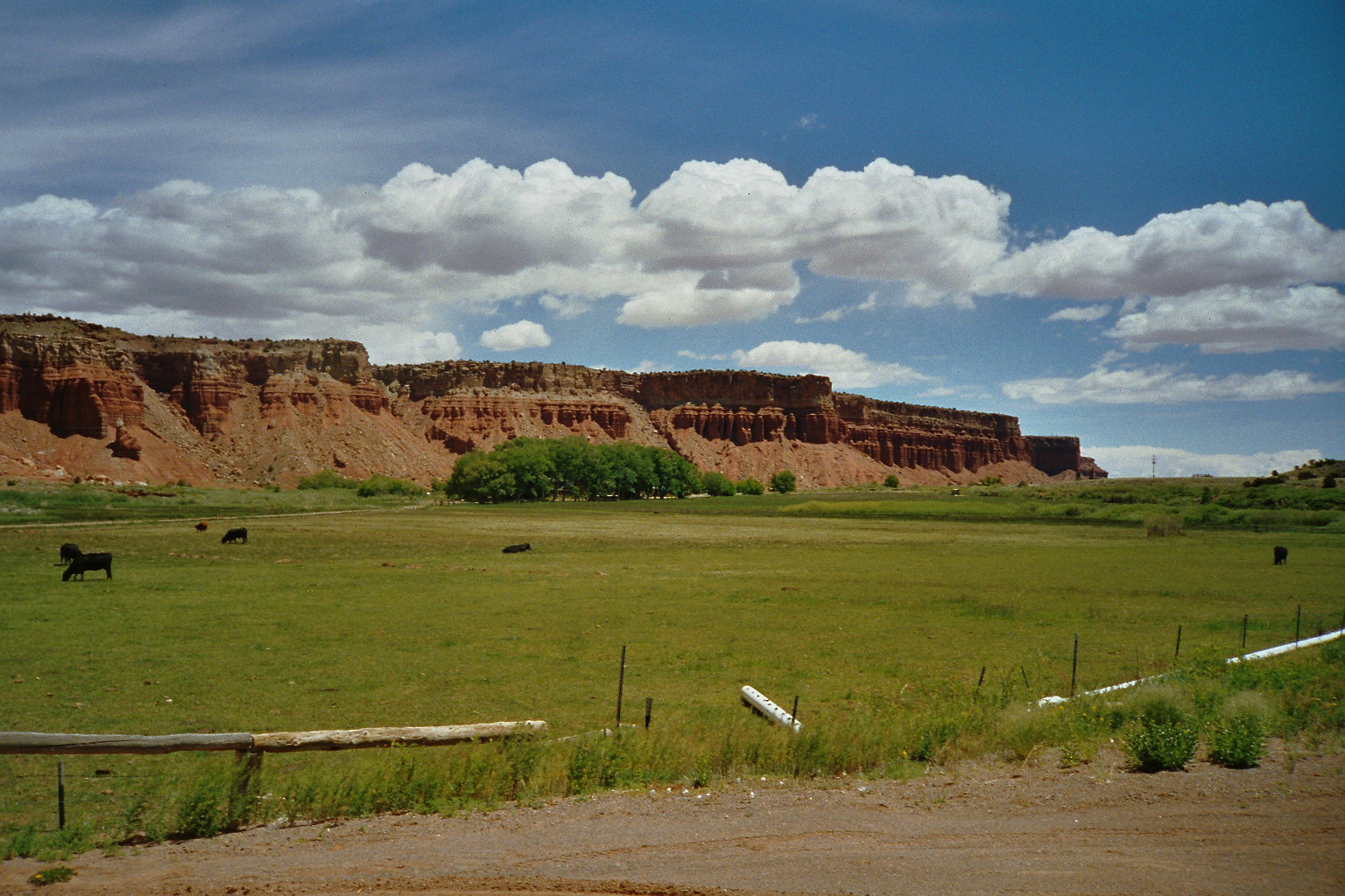 Wayne County,SR 24east, photo taken by myself in June 2005, author: R.Blauert Dk4hb